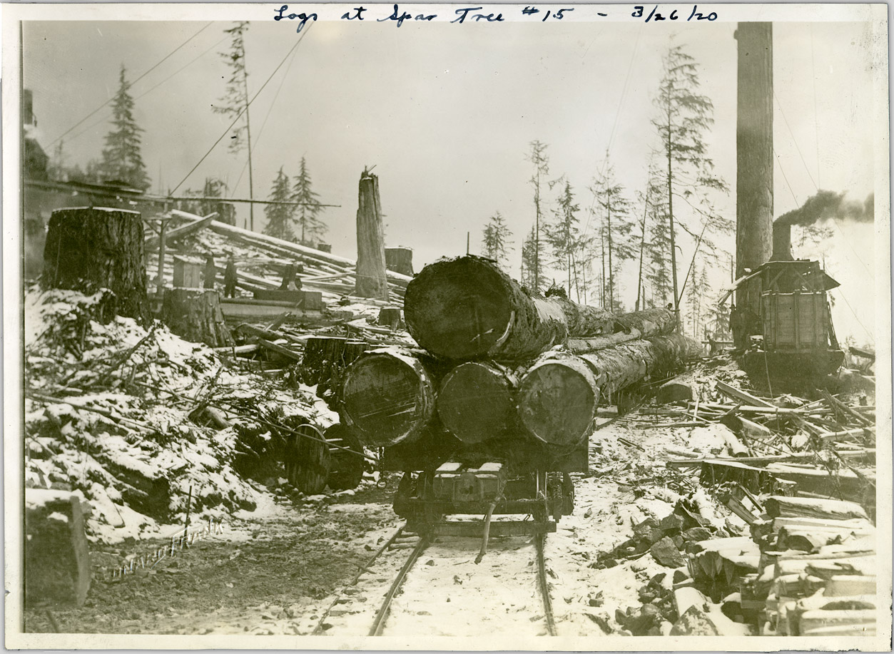 Log transportation